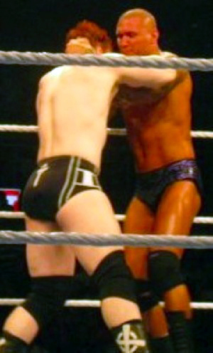 Sheamus and Orton locking up